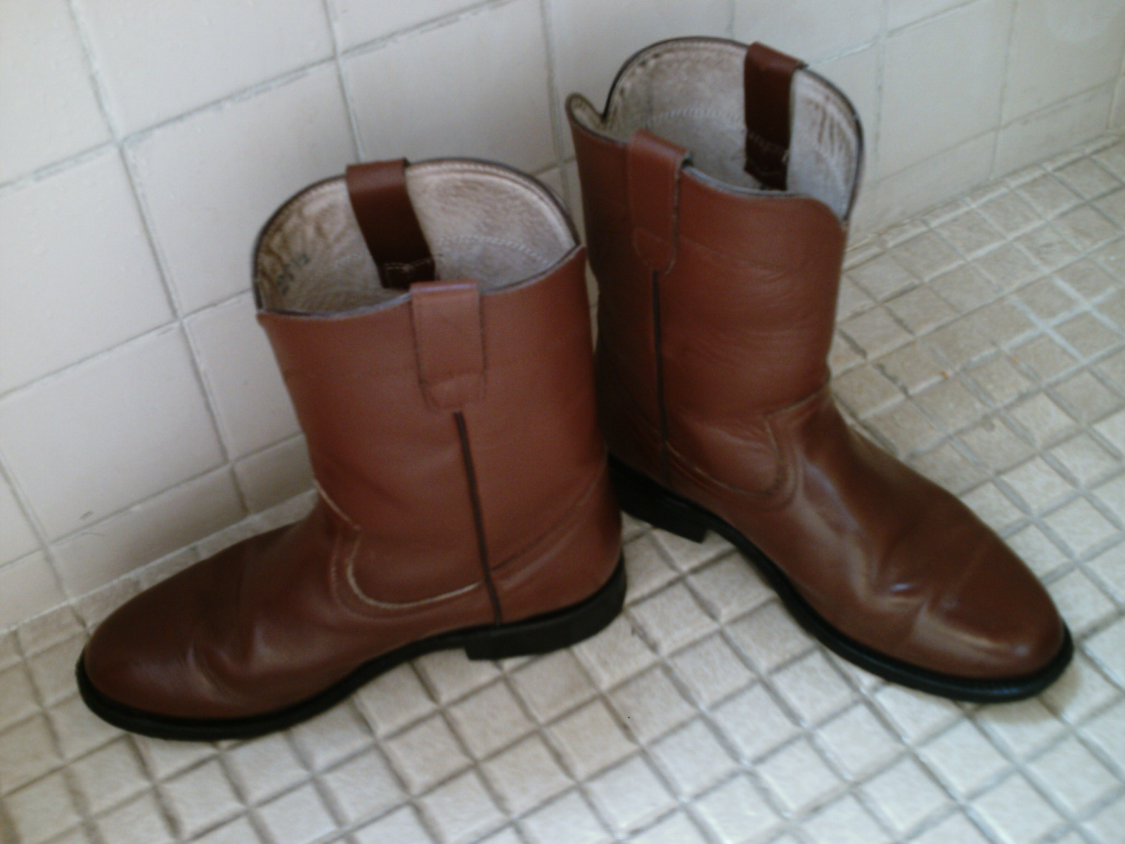 Haro F.J. leather roper boots made in León, Guanajuato (Mexico) original: Image:SUNP0066.JPG, originally uploaded by user:Jradetzky